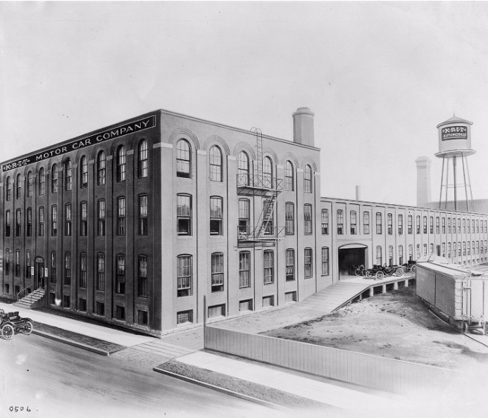 7.75x9.25 black and white photograph of a painting of the Krit Motor Car Company factory located at 1608 East Grand Boulevard